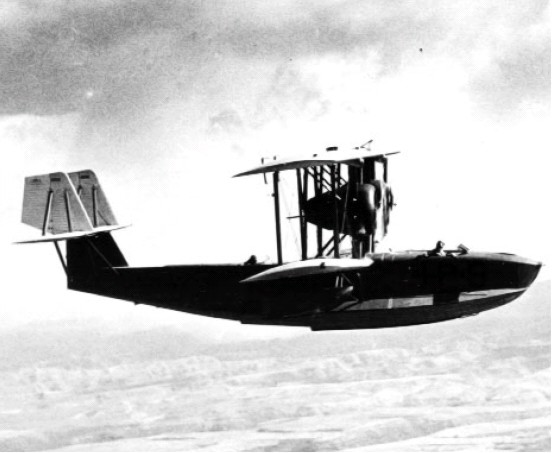 A U.S. Navy Keystone PK-1 flying boat in flight. Keystone Aircraft produced 18 Naval Aircraft Factory PN-12 under licence as PK-1s. These aircraft served with patrol squadron VP-1F from 1932 to 1938.